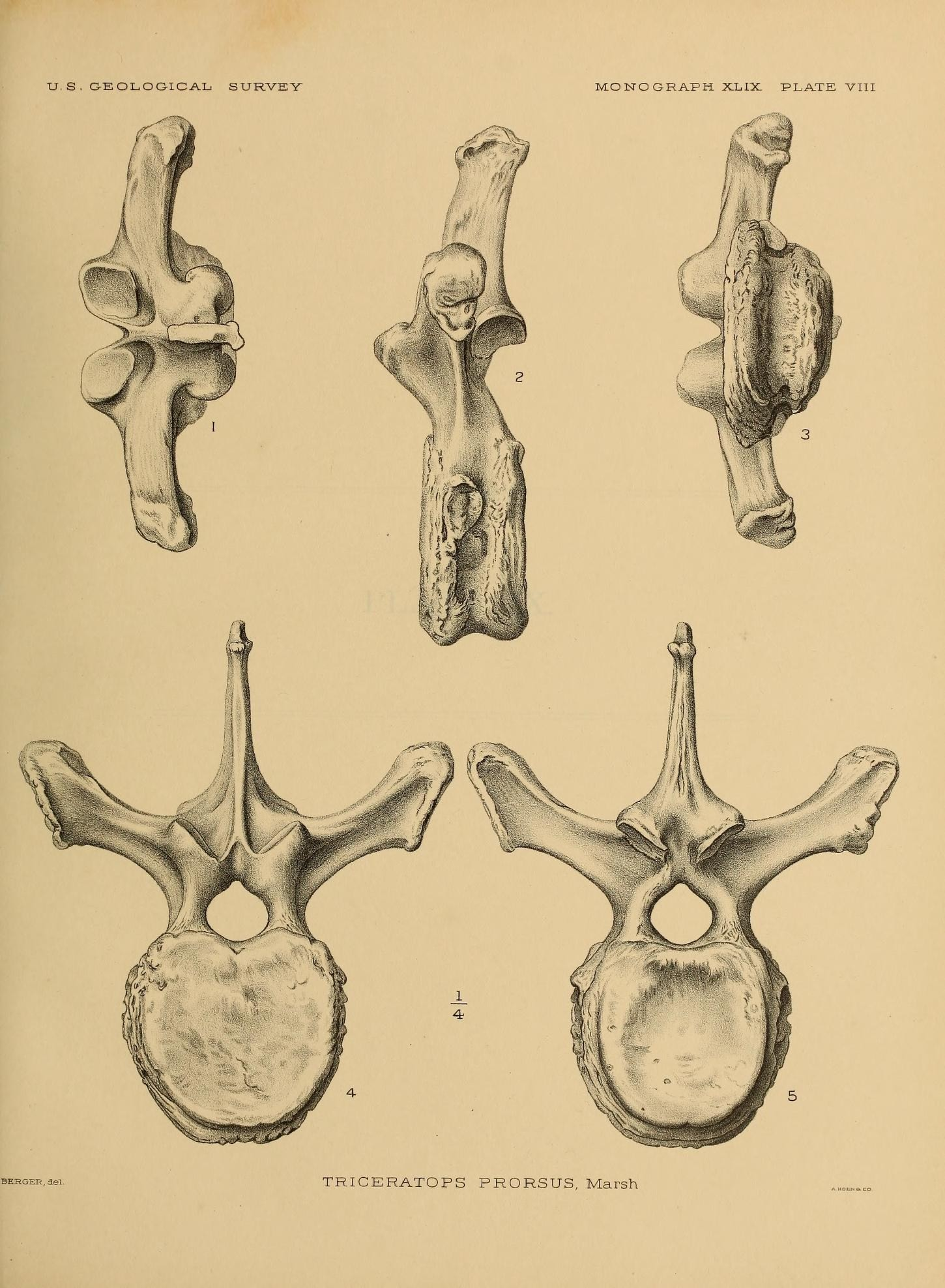 Triceratops prorsus Marsh.